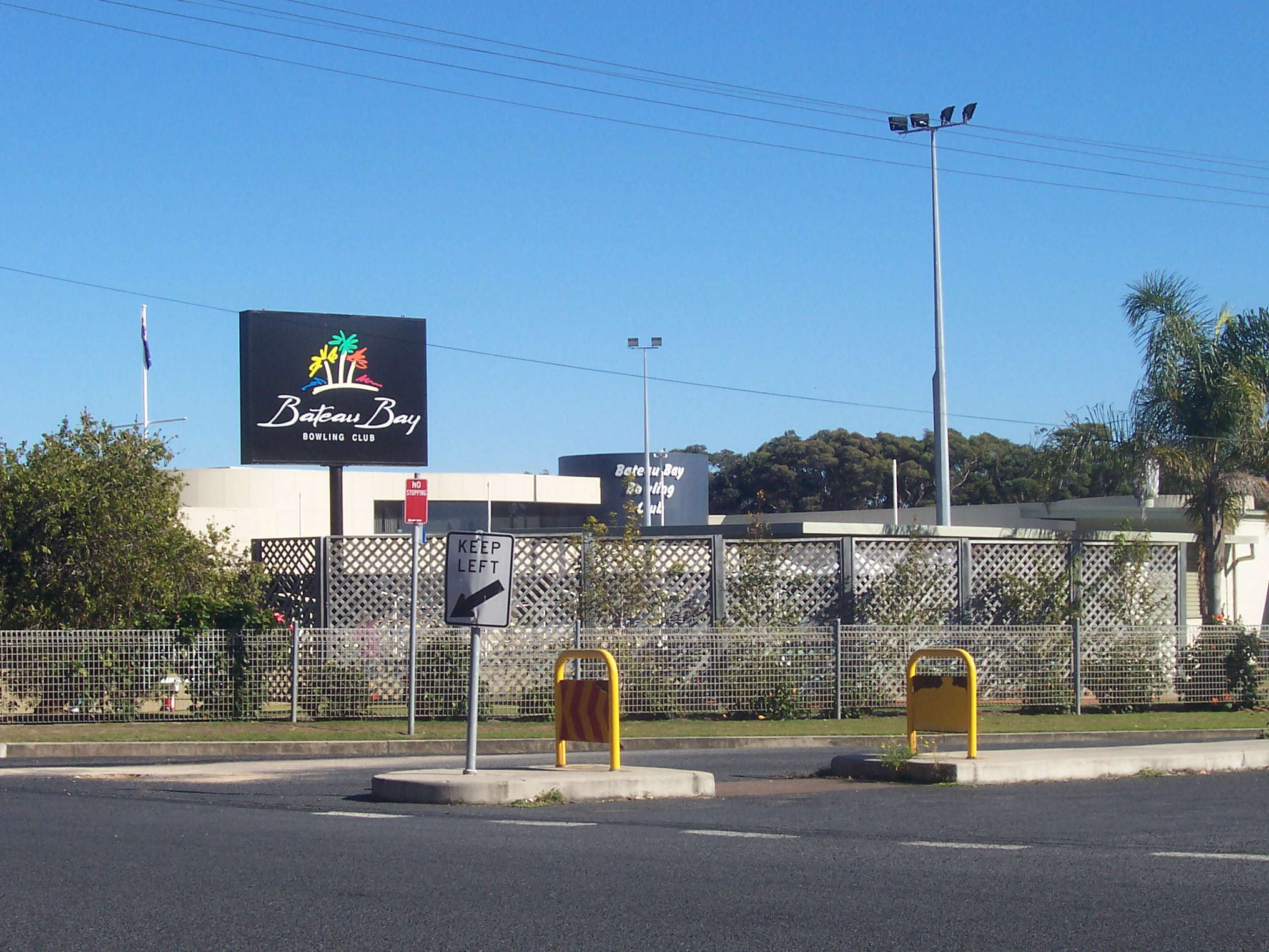 This picture was taken by me. This picture was taken by me.